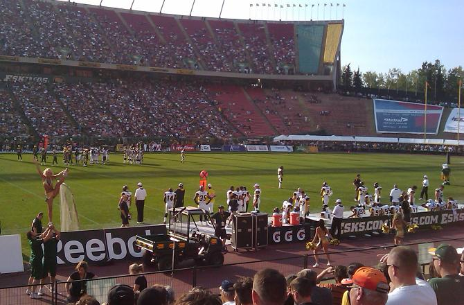 Canadian Football League game at Commonwealth Stadium, Edmonton, Alberta, Canada. The Edmonton Eskimos defeated the Hamilton Tiger-Cats 31-30.